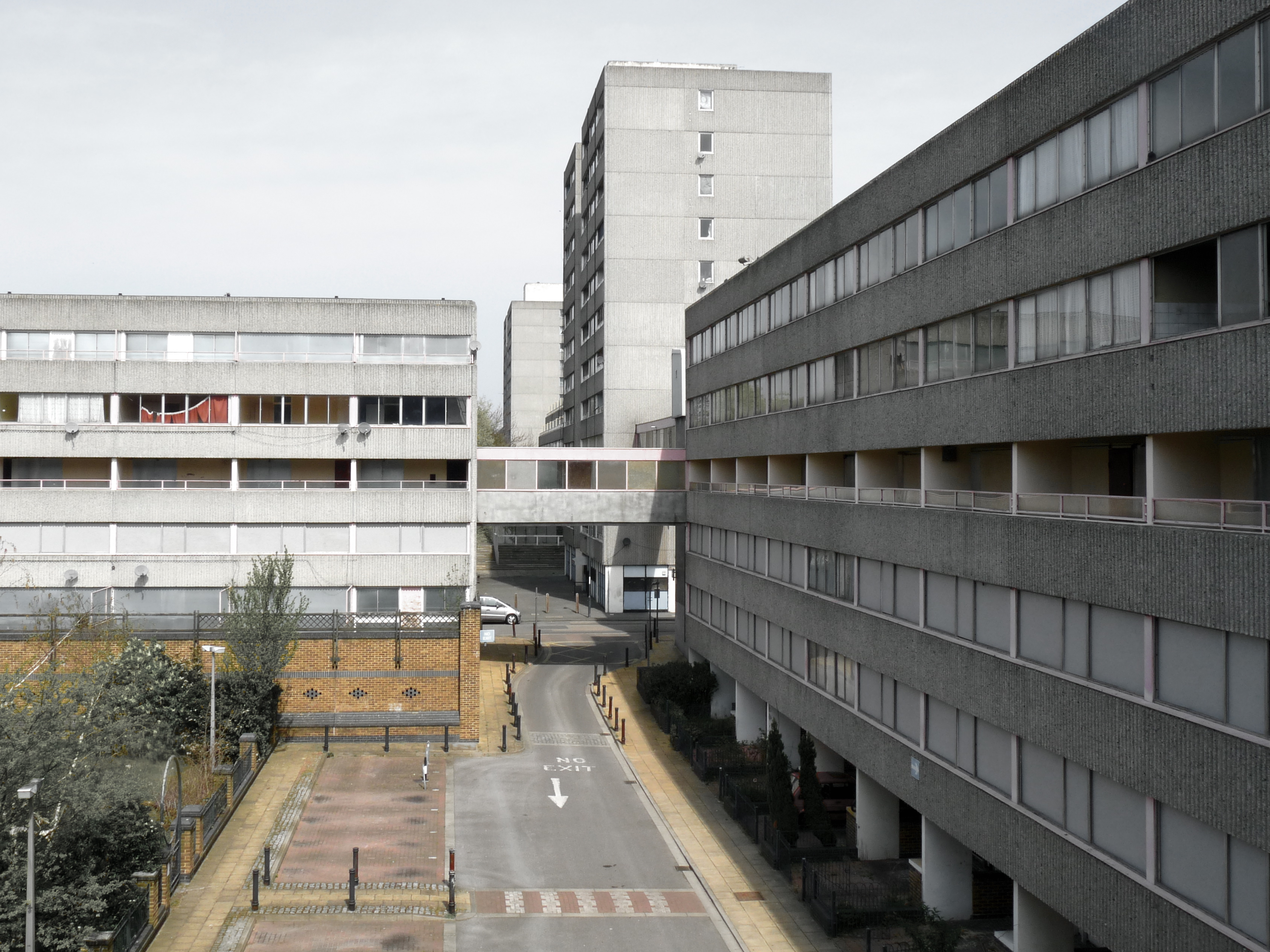 Lebrun Square of the Ferrier Estate, located in Kidbrooke, Greenwich, south London.